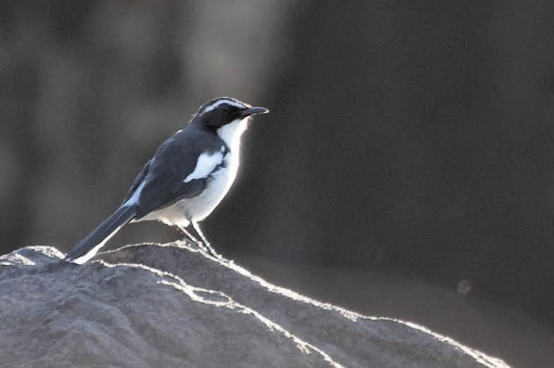 Angola cave chat in the Zebra mountains, Kunene region, Namibia